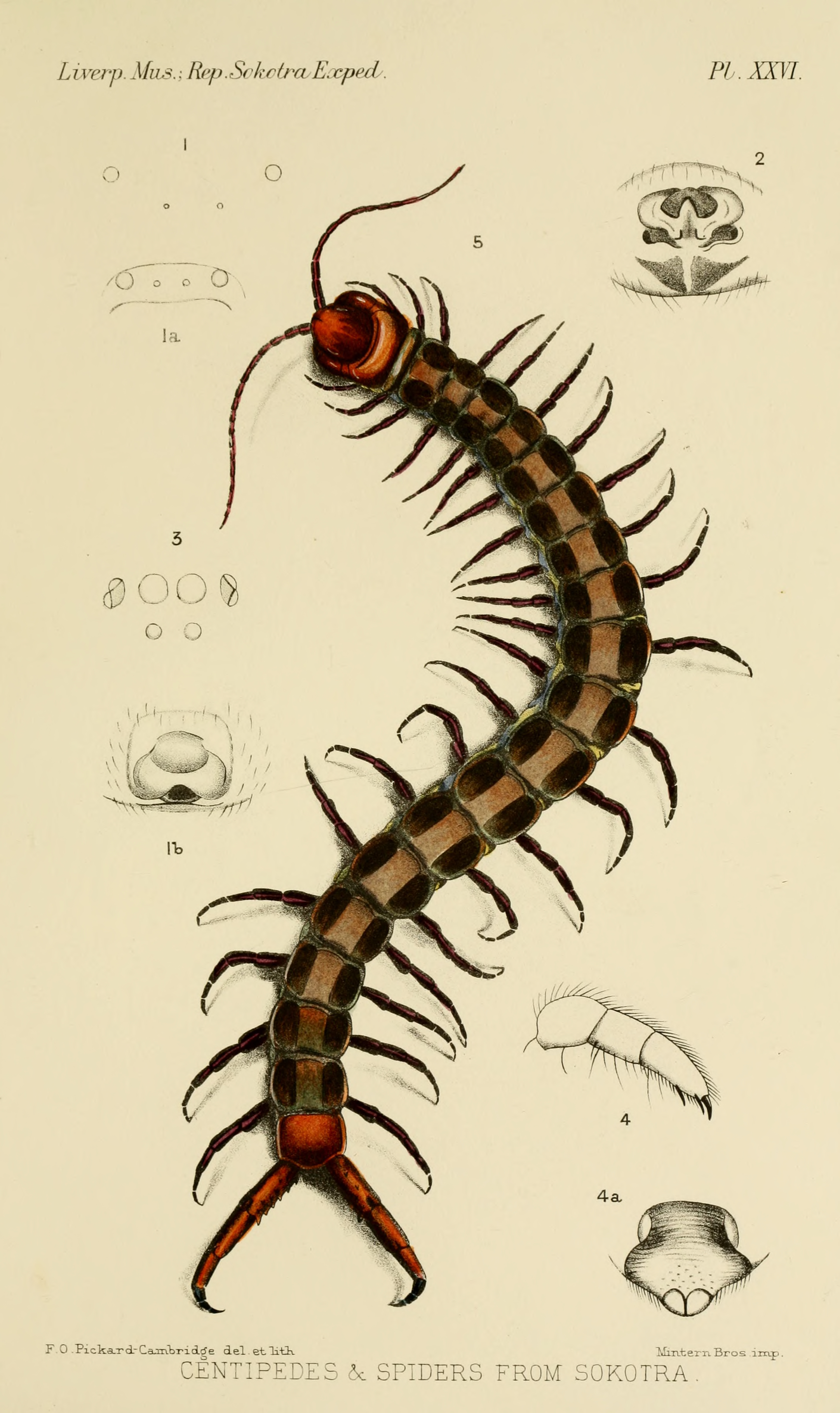 Plate XXVI, "Centipedes and Spiders from Sokotra", from The Natural History of Sokotra and Abd-el-Kuri, showing a Scolopendra balfouri centipede, and details of Dimizonops insularis, Bassanoides socotrensis, Scelidomachus socotranus, Capheris insularis.